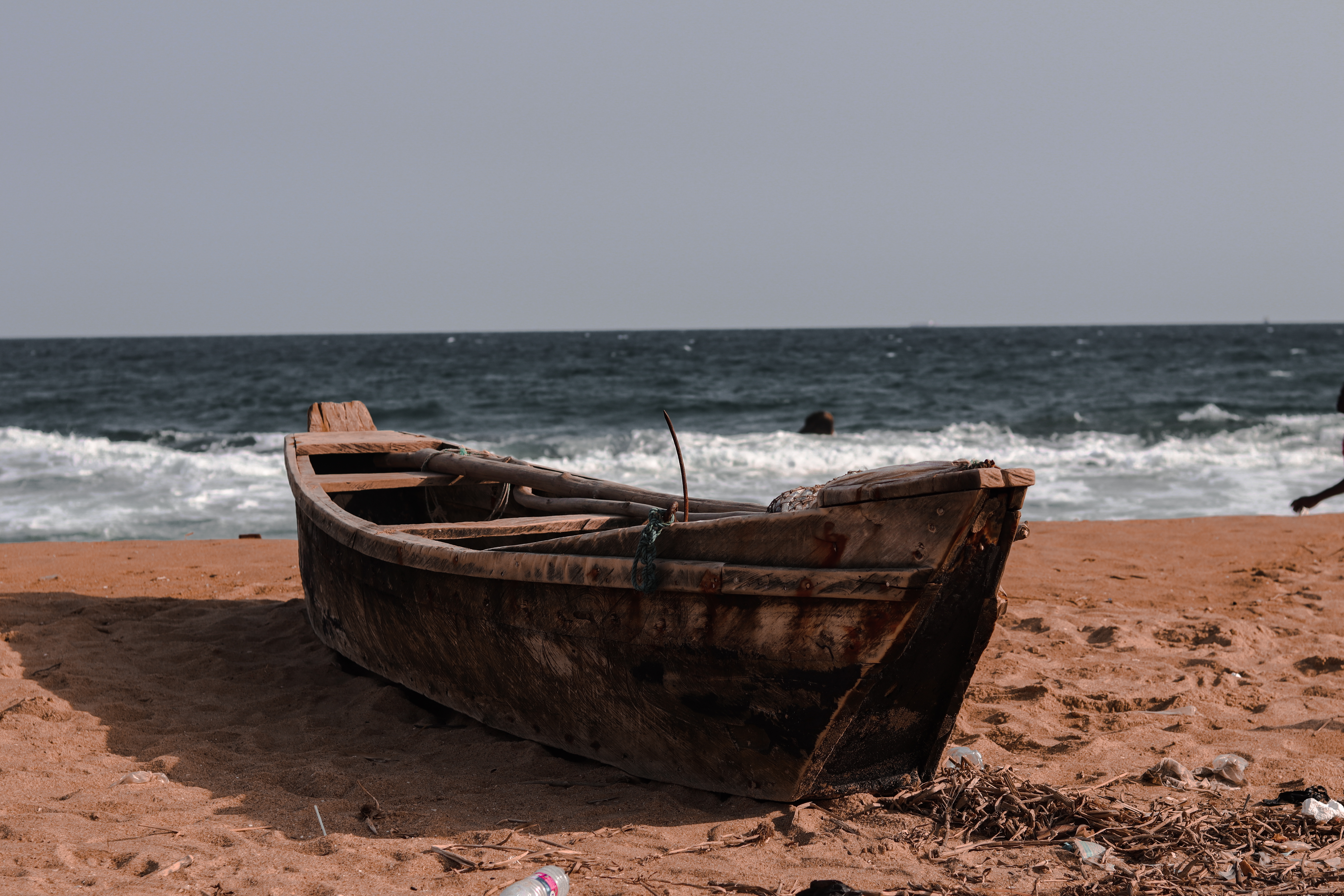 This is an image with the theme "Africa on the Move or Transport" from: Togo